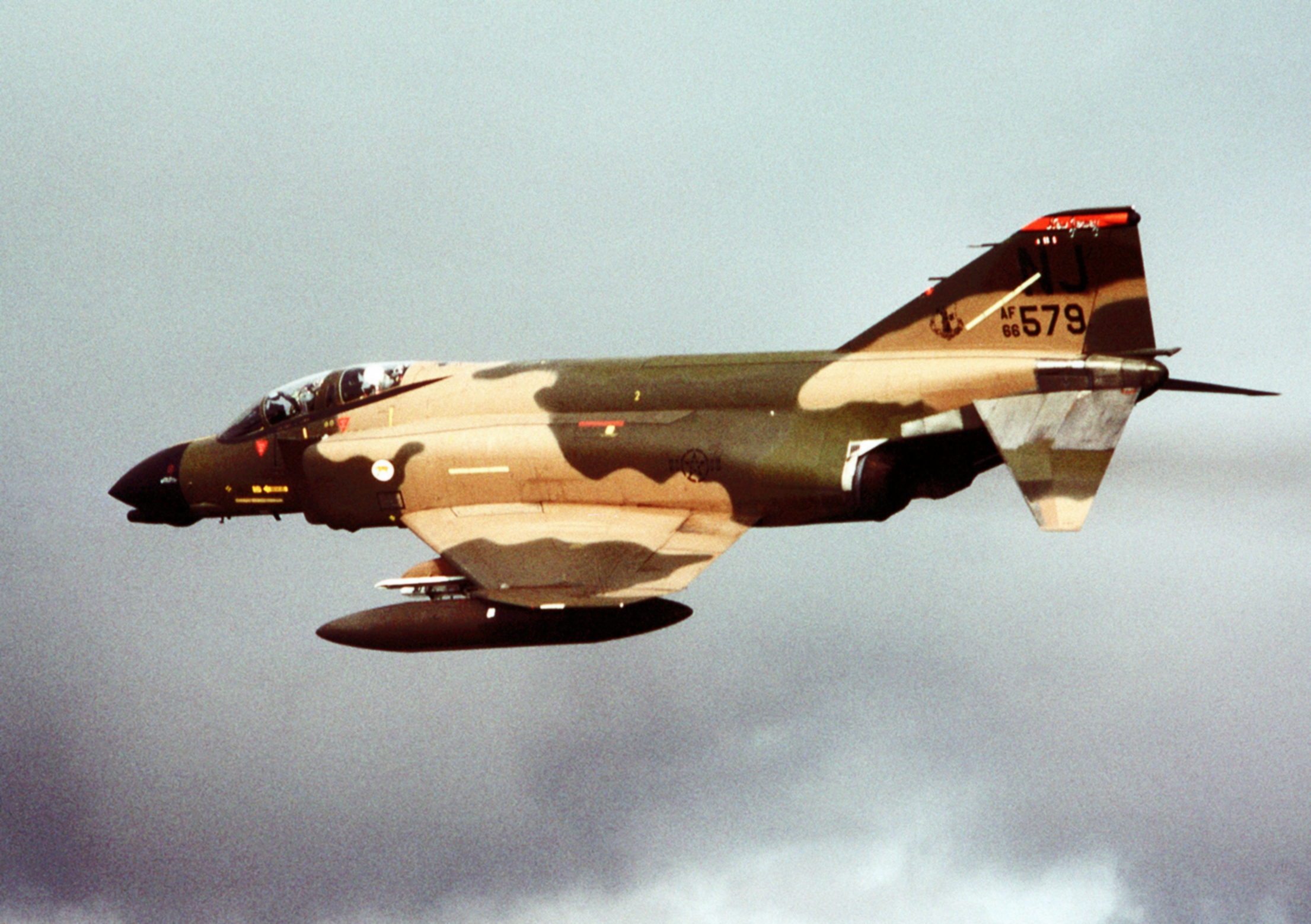 A U.S. Air Force McDonnell F-4D-30-MC Phantom II (s/n 66-7579) from the 141st Tactical Fighter Squadron, 108th Tactical Fighter Wing, New Jersey Air National Guard, in flight over Germany during excercise "Reforger '82" on 19 September 1982.